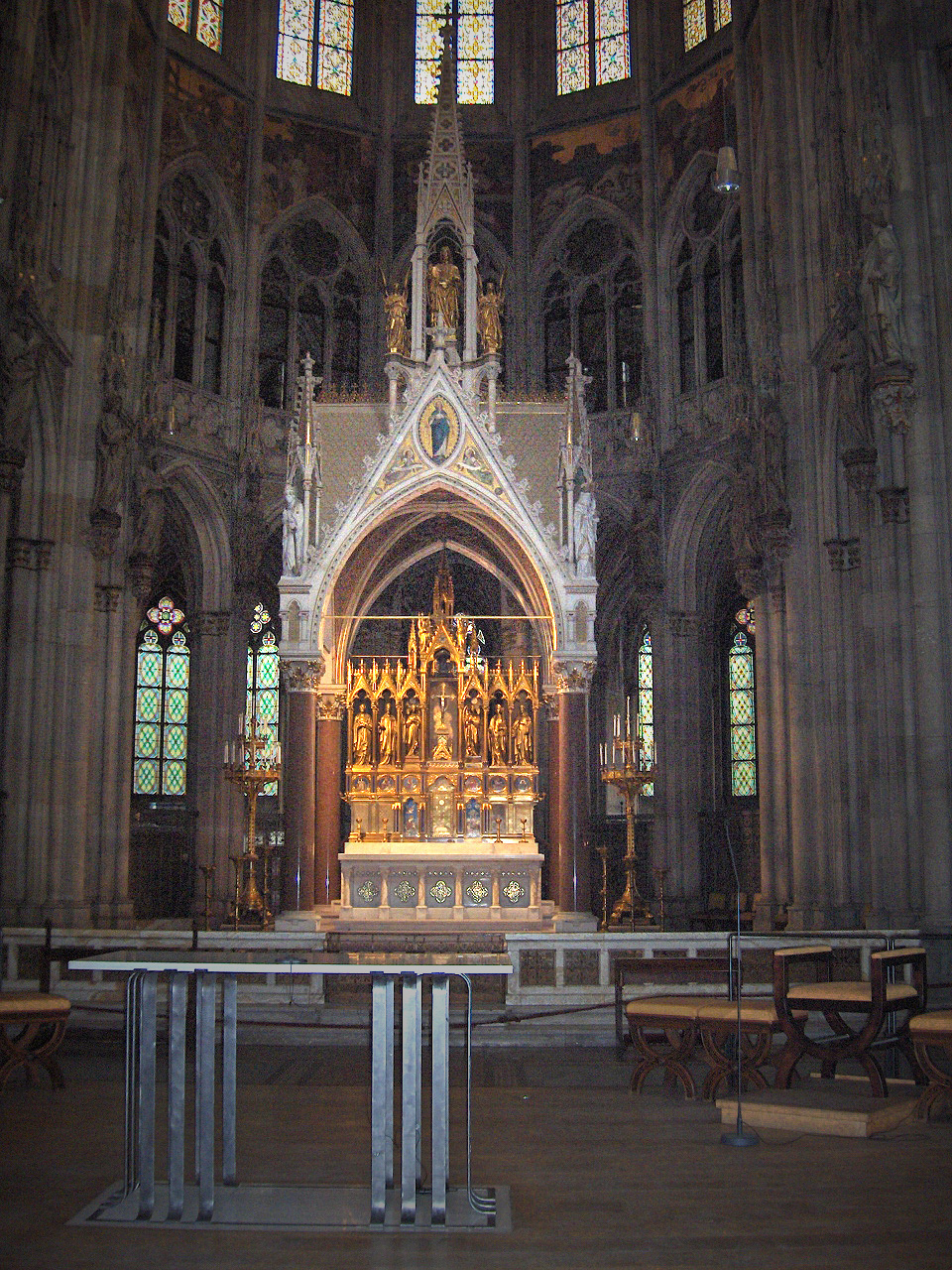 Main altar and ciborium of the Votivkirche, Vienna, Austria